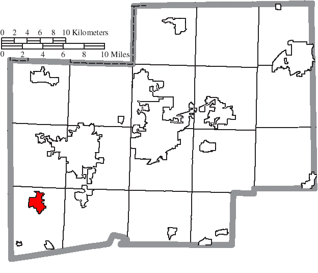 Map of the municipal and township boundaries of Stark County, Ohio, United States, as of the 2000 census, with the location of the village of Brewster highlighted. Township borders are shown only in unincorporated areas in order to differentiate incorporated and unincorporated areas more clearly.